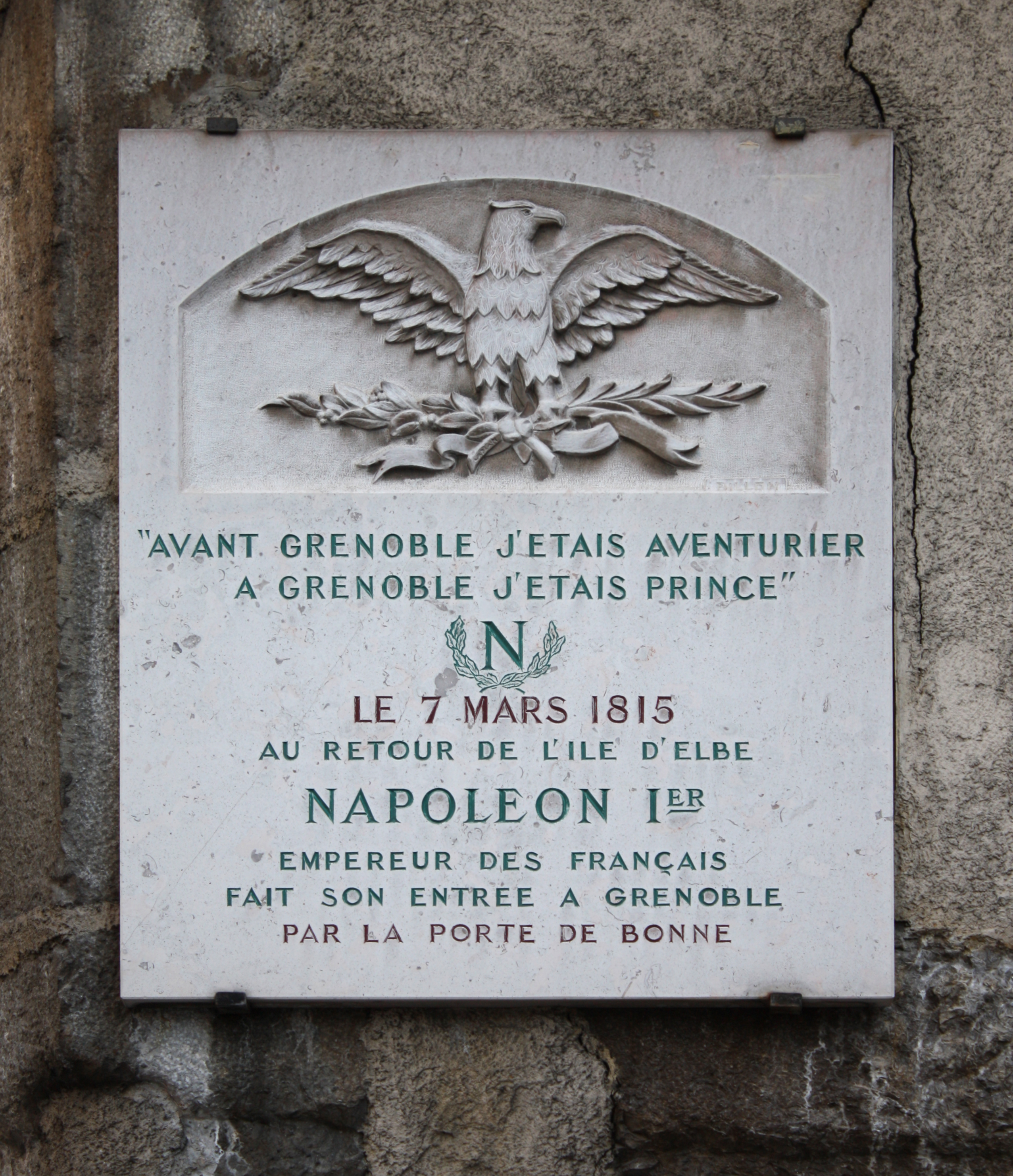 Plaque of the Route Napoléon commemorating the entry of Napoléon in Grenoble at the beginning of the Hundred Days, on march 7th 1815.